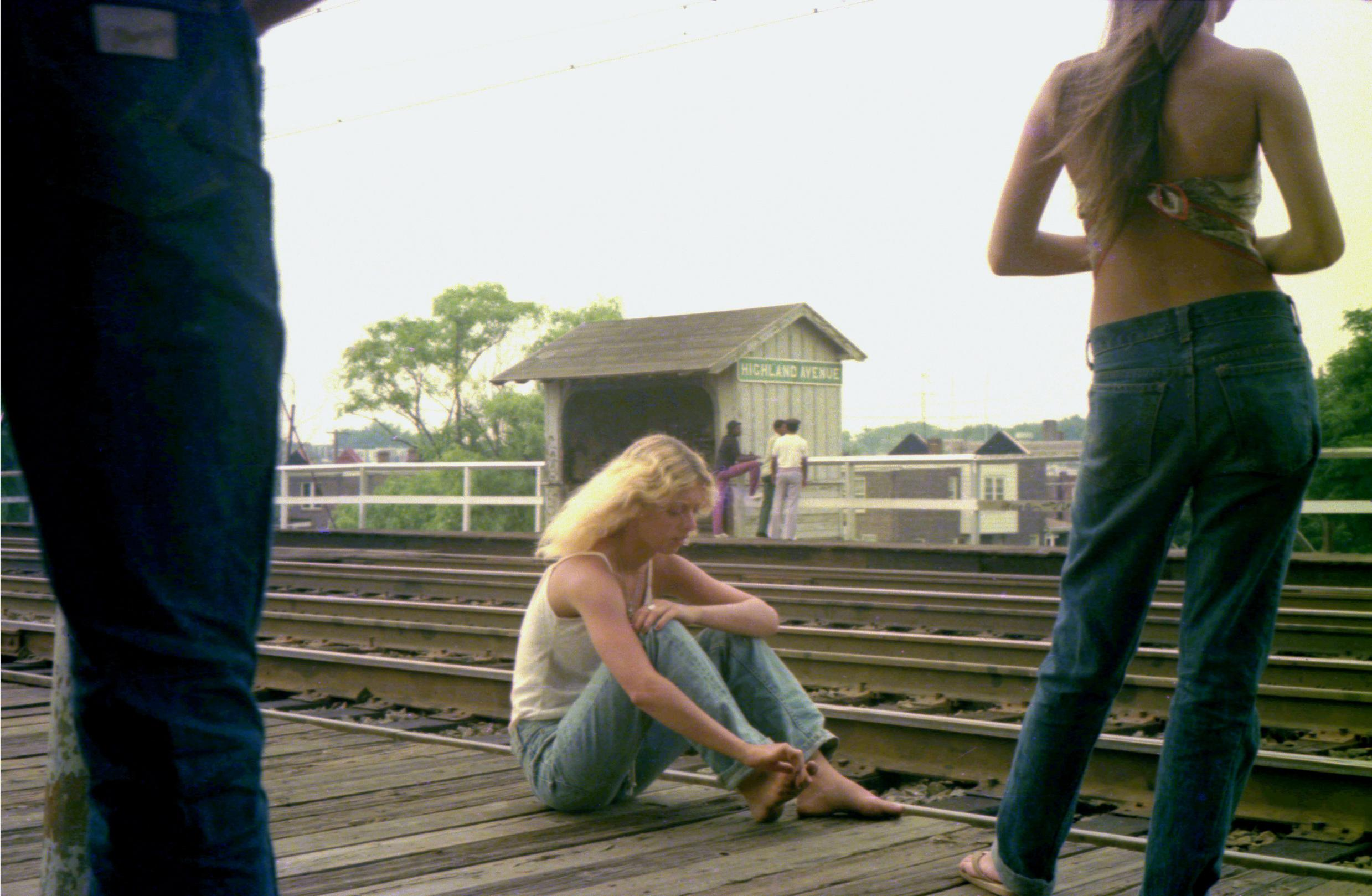 Girls at the Highland Avenue train stop, Chester, Pennsylvania.Girls At Highland Avenue Train Stop